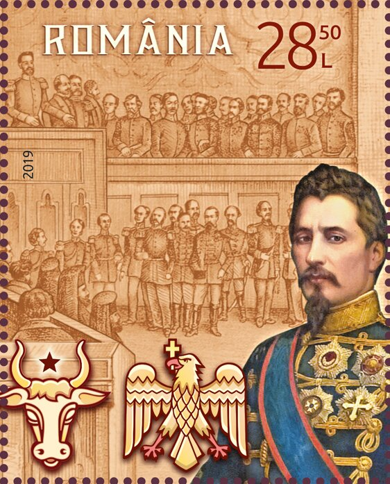 160th Anniversary of the Unification of the Principalities